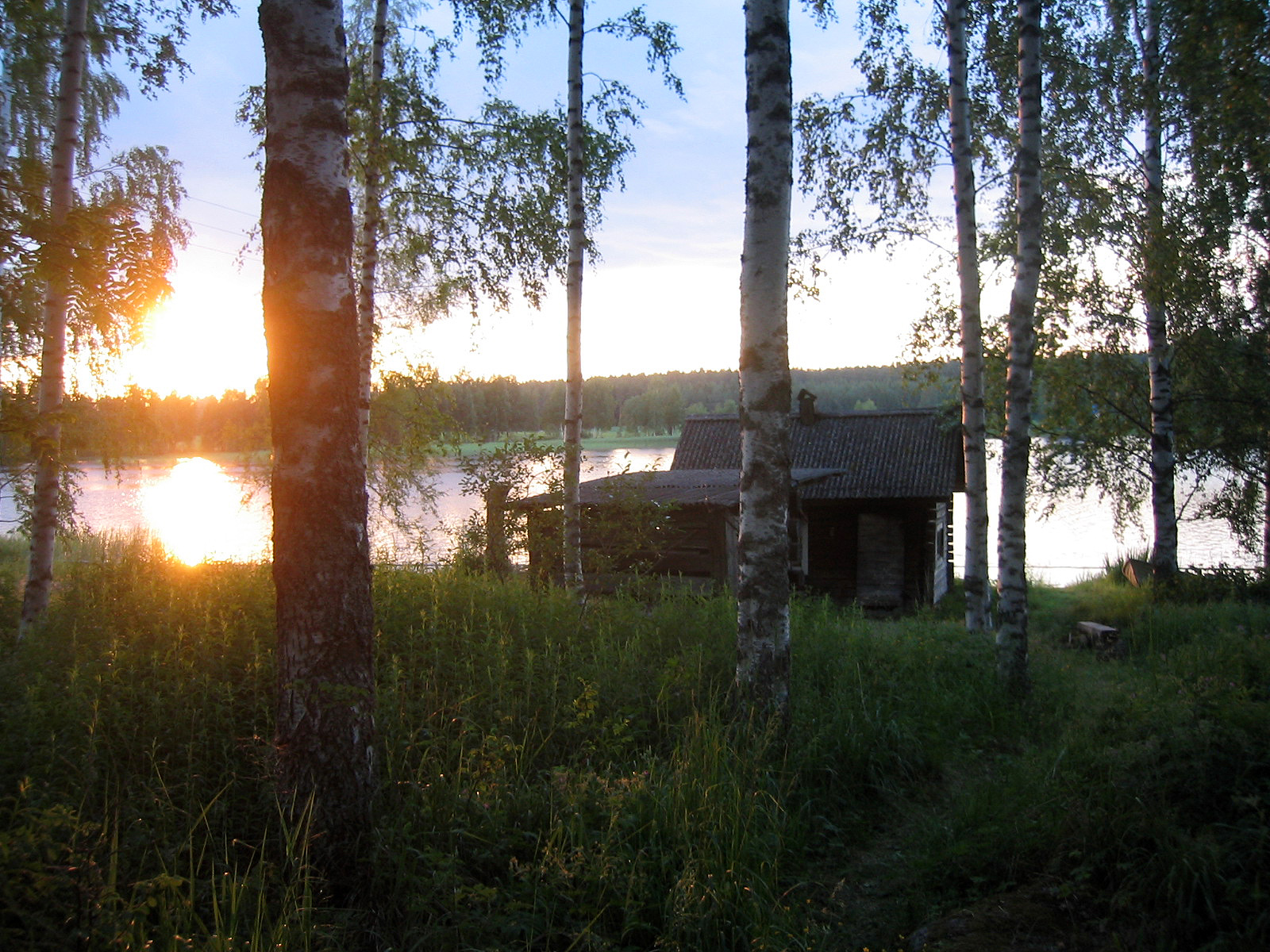 A Finnish savusauna ("smoke sauna"; a sauna without a chimney) in Kannonkoski, Finland